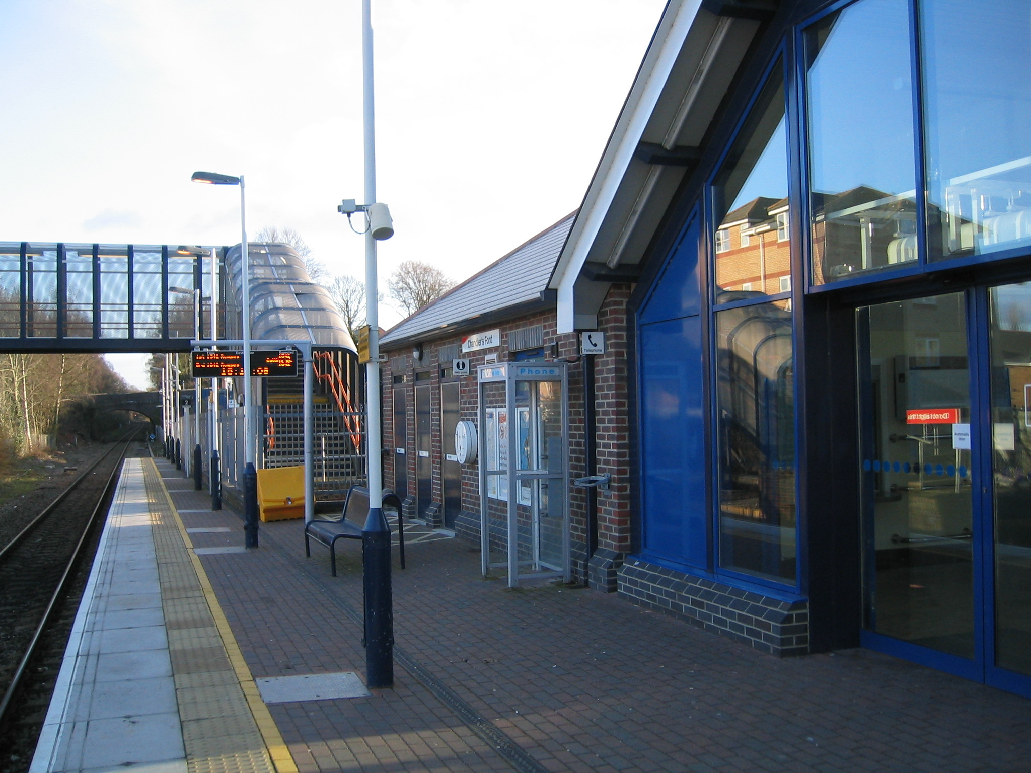 Chandler's Ford railway station, Chandler's Ford, Hampshire, UK.